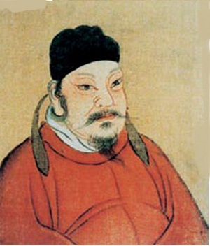 a protrait of Huo Qubing Huo Qubing was a general who serve under Emperor Wu of Han of the Han Dynasty